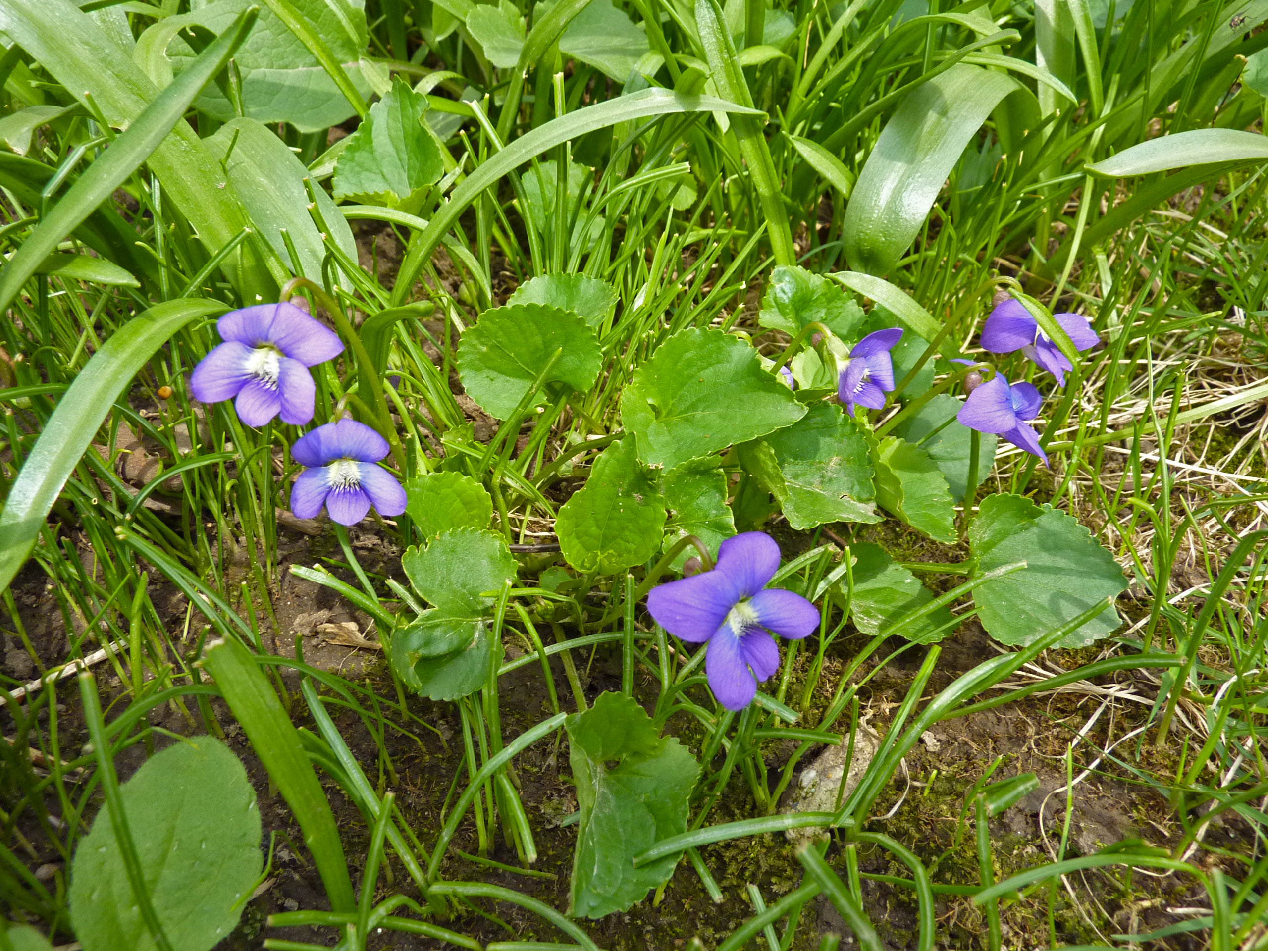 Viola sororia, the wood violet, flowering in Madison, Wisconsin.